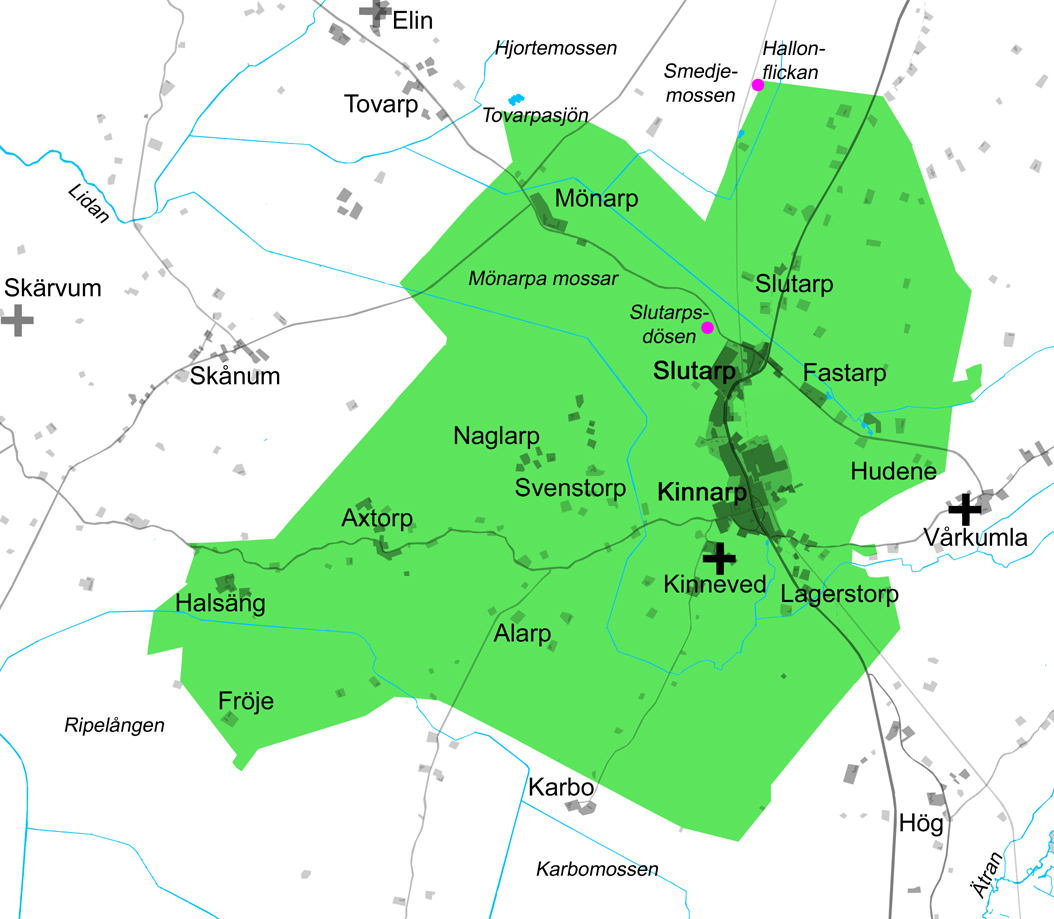 Map of Kinneved parish in Frökind hundred, Falköping municipality, Västergötland, Sweden. Scale 1:40,000. The area of Kinneved parish is marked green. The churches of Kinneved and Vårkumla are marked with black crosses. The church ruins of Skärvum and Elin are marked with grey crosses. The Neolithic "Slutarpsdösen" (i.e. The Slutarp dolmen) and the site where the Neolithic "Hallonflickan" (i.e. The Raspberry girl) was found are marked magenta.